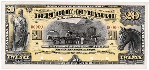 Republic of Hawaii Banknote for 20 gold dollars, 1895.